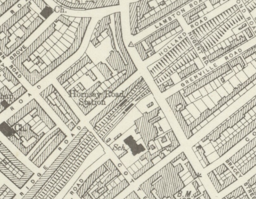 Hornsey Road station in north London on a 1920 Ordnance Survey map.